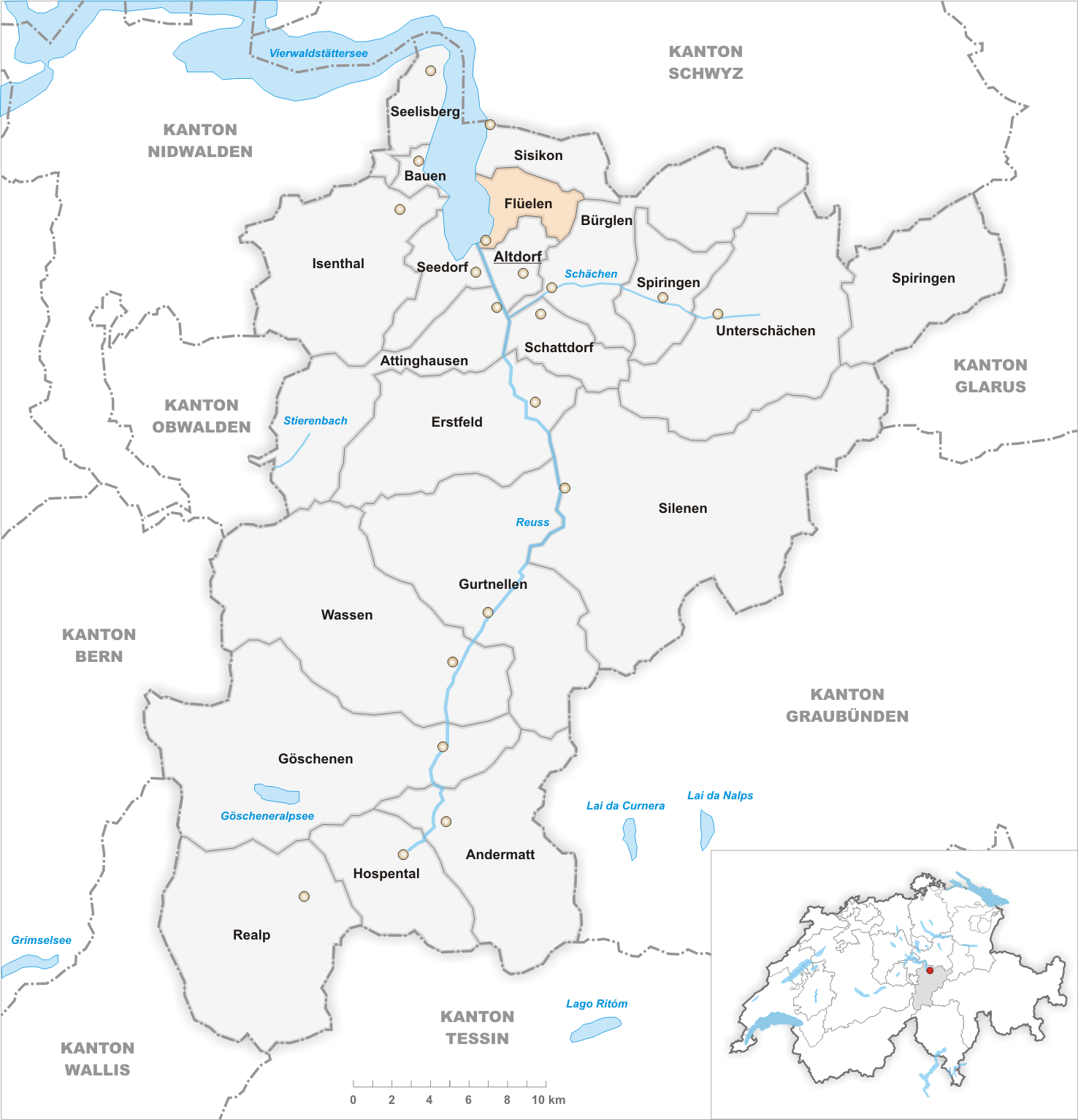 Municipality Flüelen